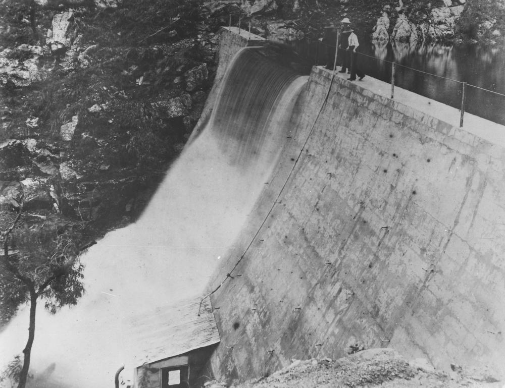 Water flowing over spillway at Ibis Dam, Irvinebank, ca. 1912